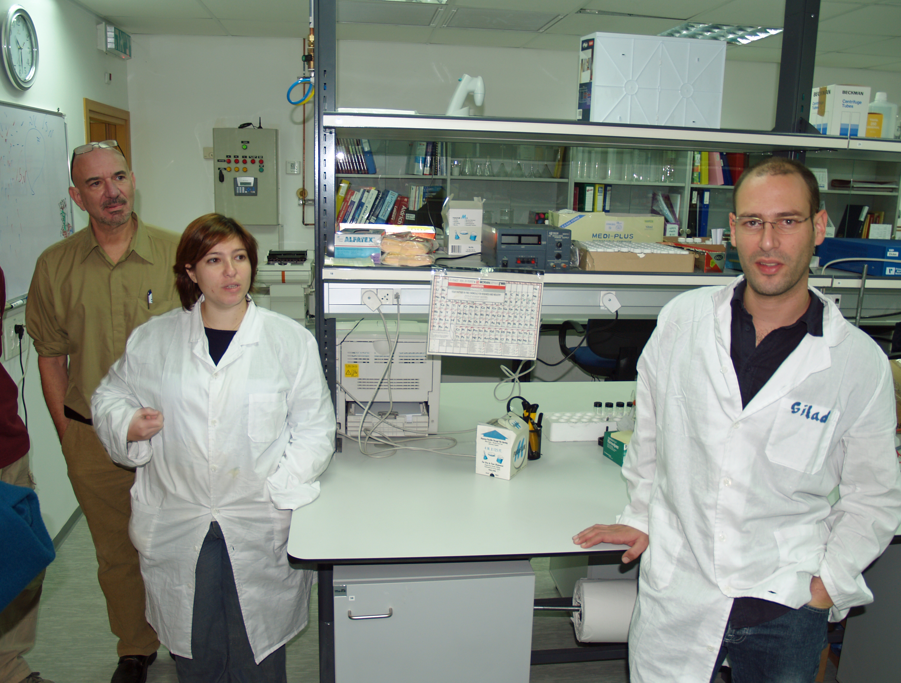 Norman Sandberg and Meytav lab in Kiryat Shmona